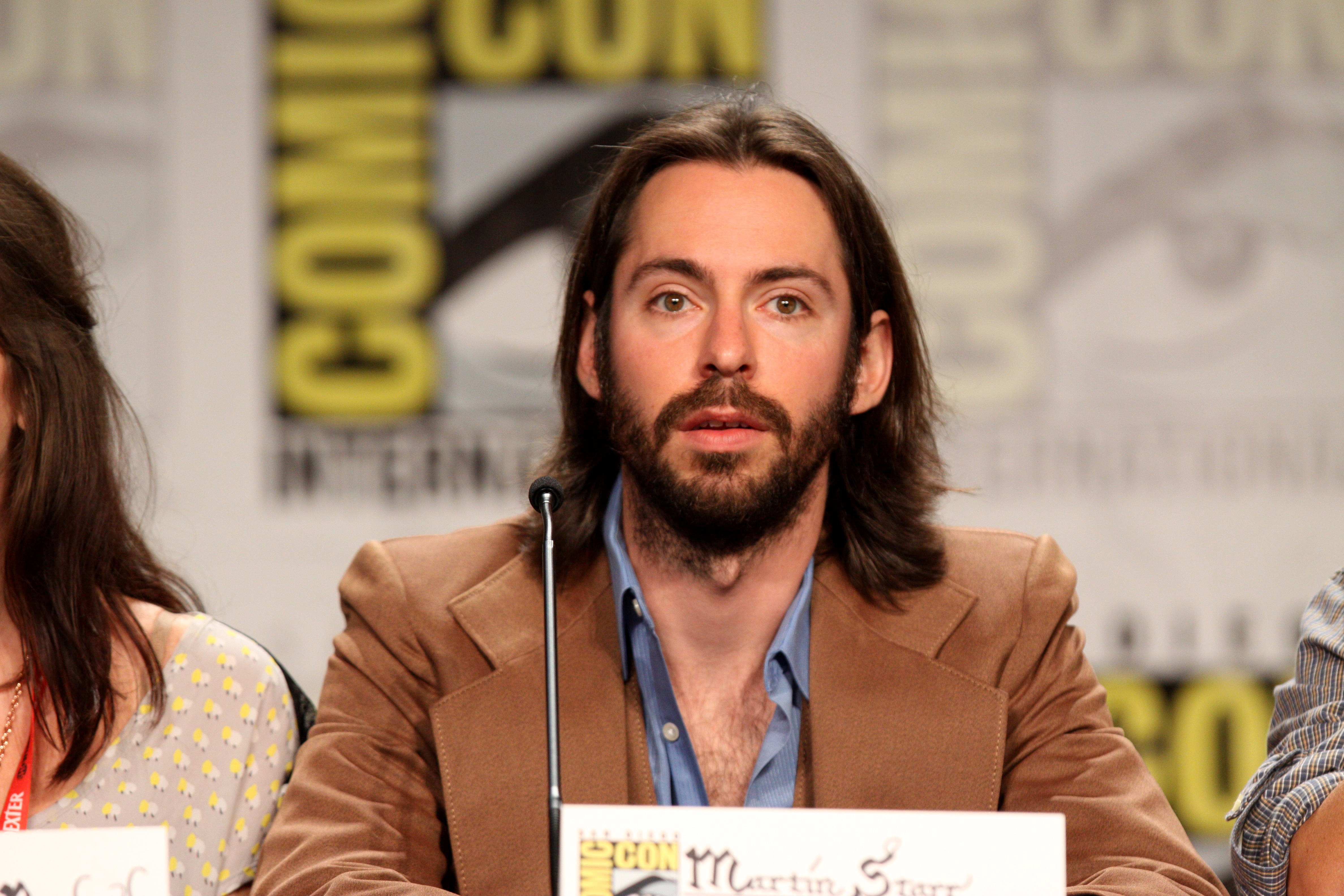 Martin Starr at the 2011 San Diego Comic-Con International in San Diego, California.